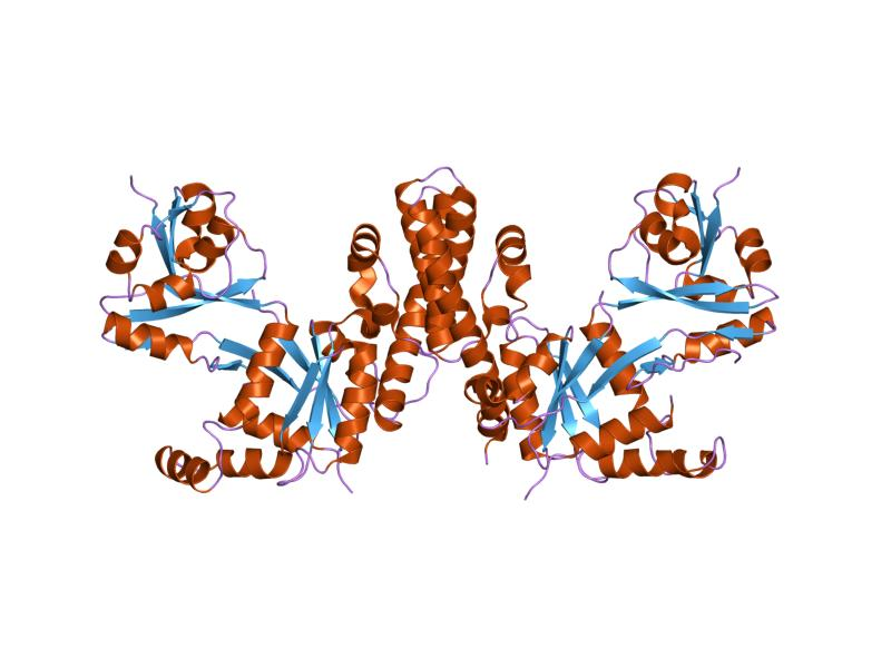 Cartoon representation of the molecular structure of protein registered with 1jal code.